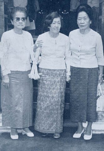 Indrasakdi Sachi Sucharit Suda and Pua